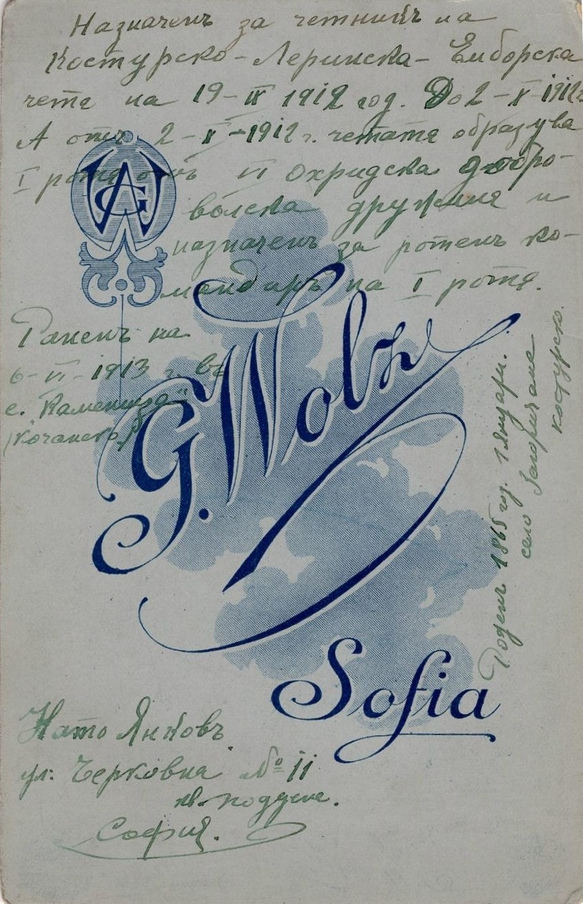 Natanail Yankov Zagorichani back